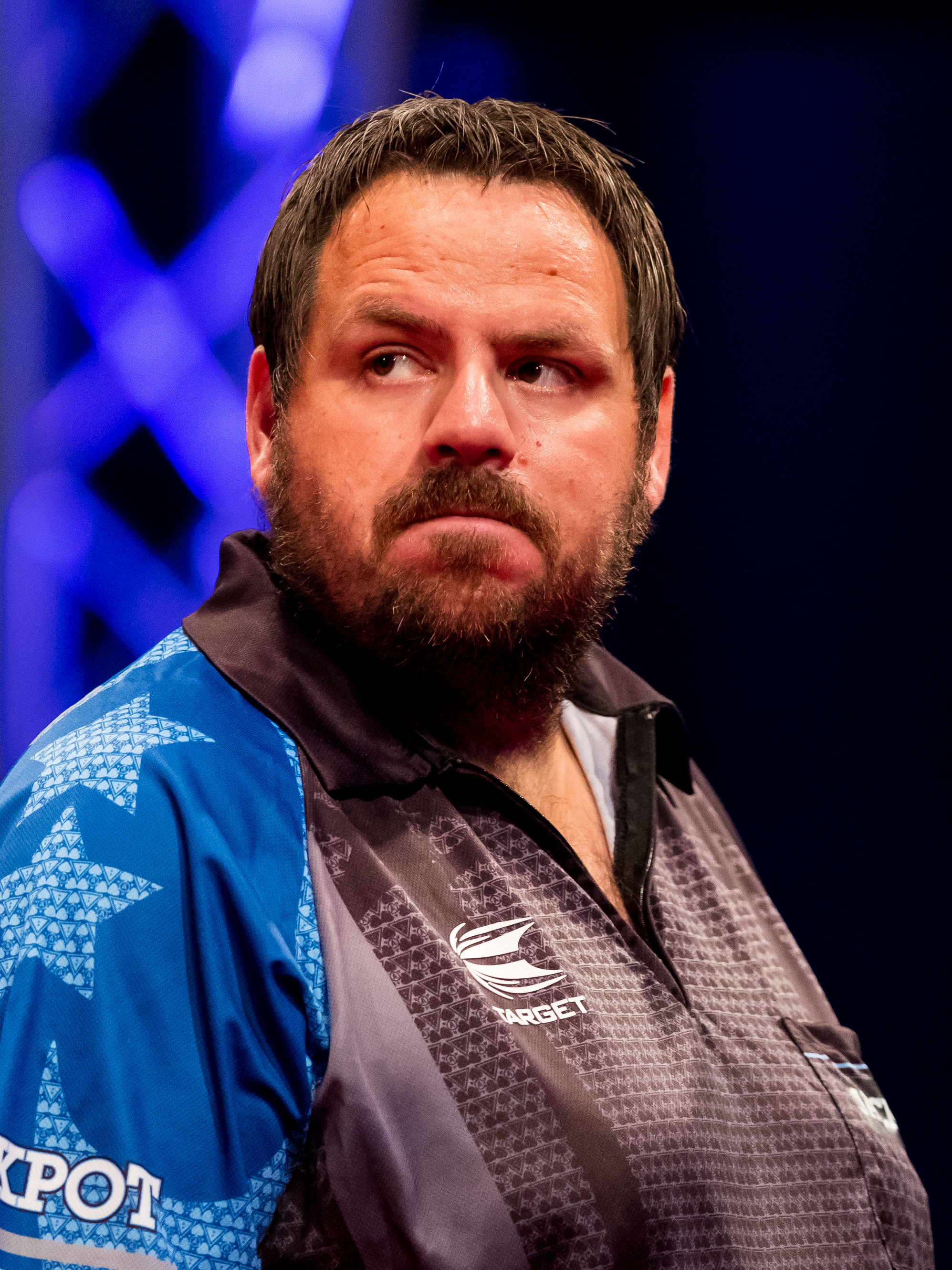 Adrian Lewis 6:2 Dirk van Duijvenbode during PDC Europe Darts Matchplay at Maimarkthalle, Mannheim, Baden-Württemberg, Germany on 2019-09-07, Photo: Sven Mandel